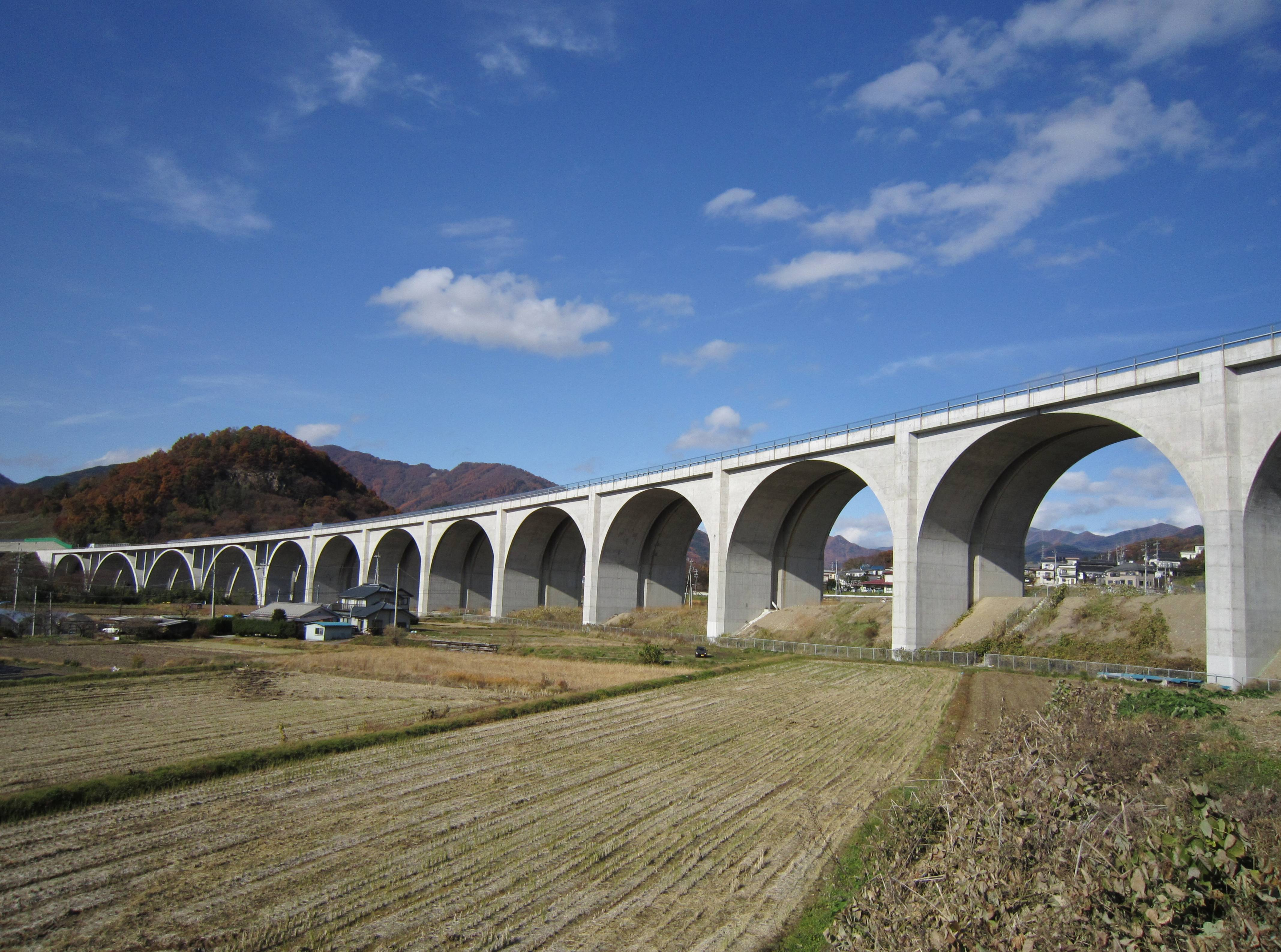 Ueda-Roman Bridge.